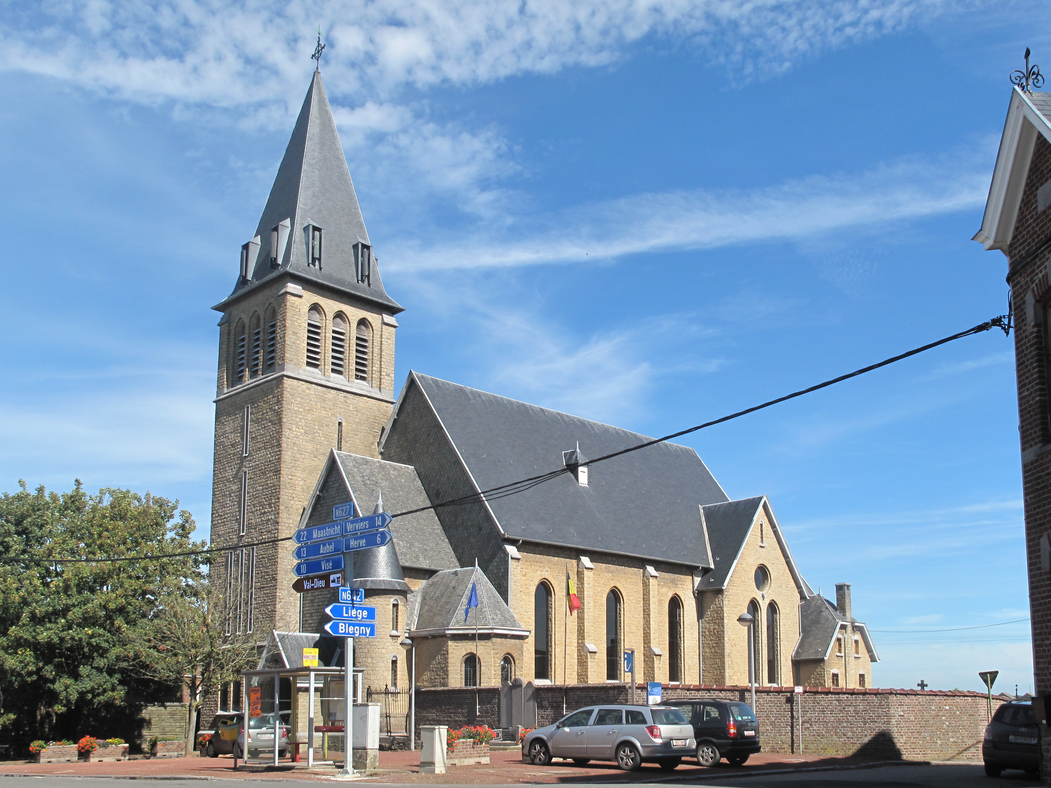 Julémont, church